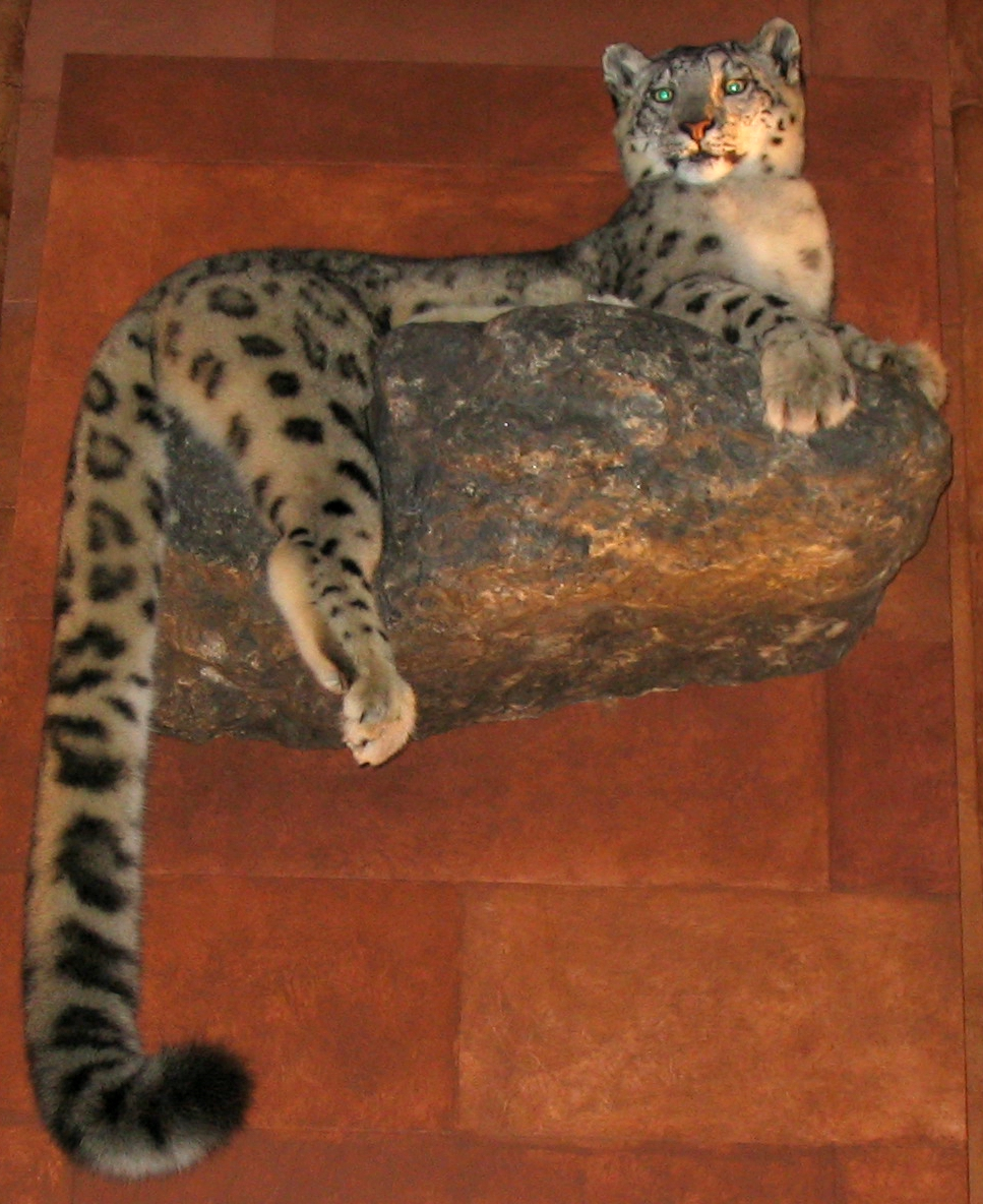 A taxidermed snow leopard (Uncia uncia), on display at the Smithsonian Institution Building